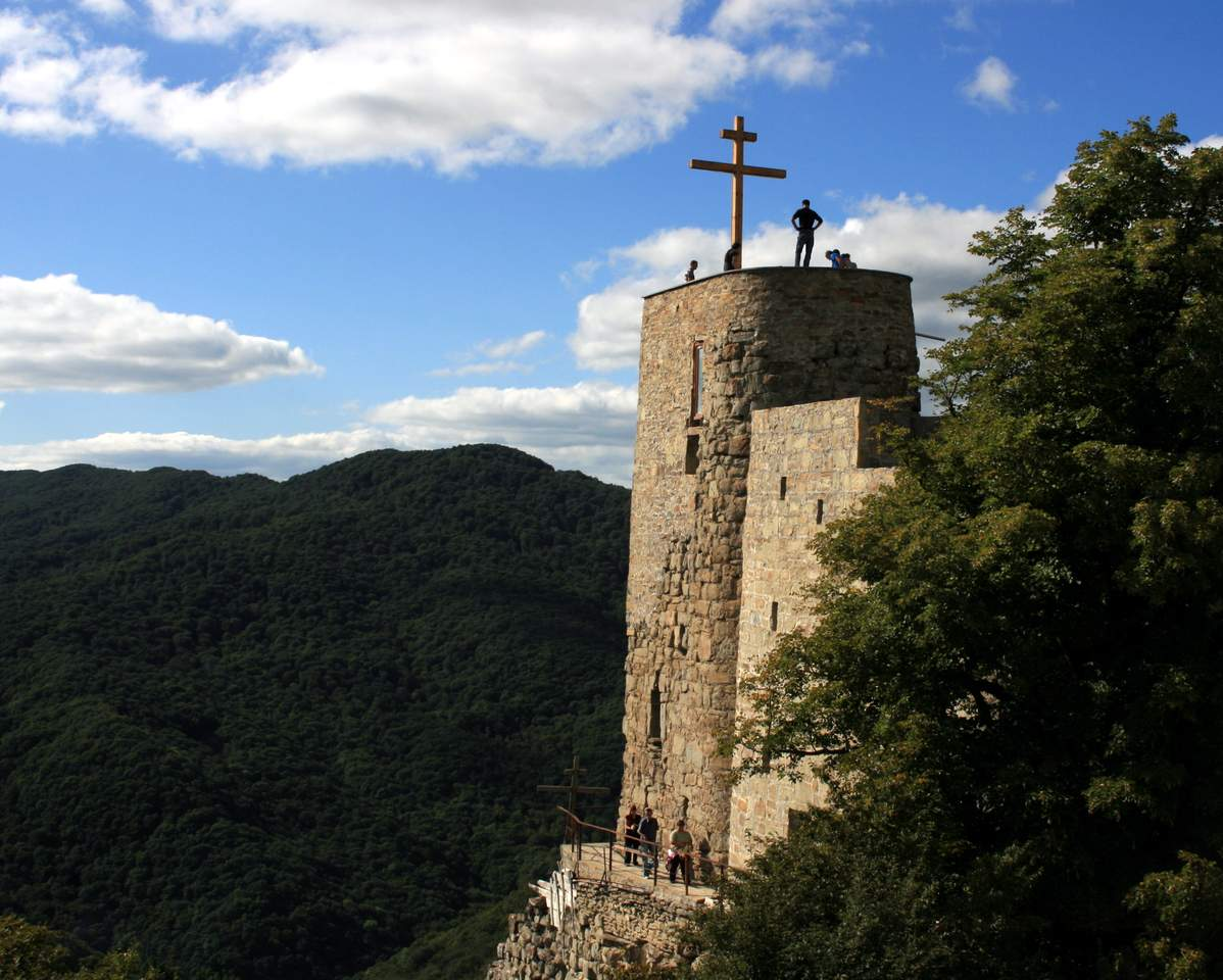 Martkopi. St. Anton's Tower